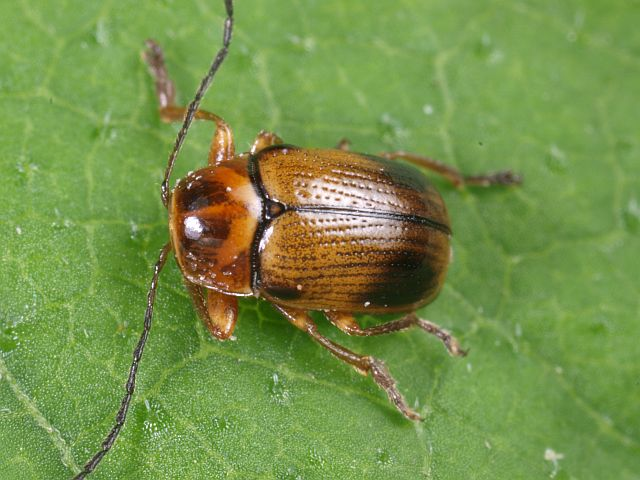 Cryptocephalus pusillus Location: The Netherlands - Brakel - Bovenwaarden